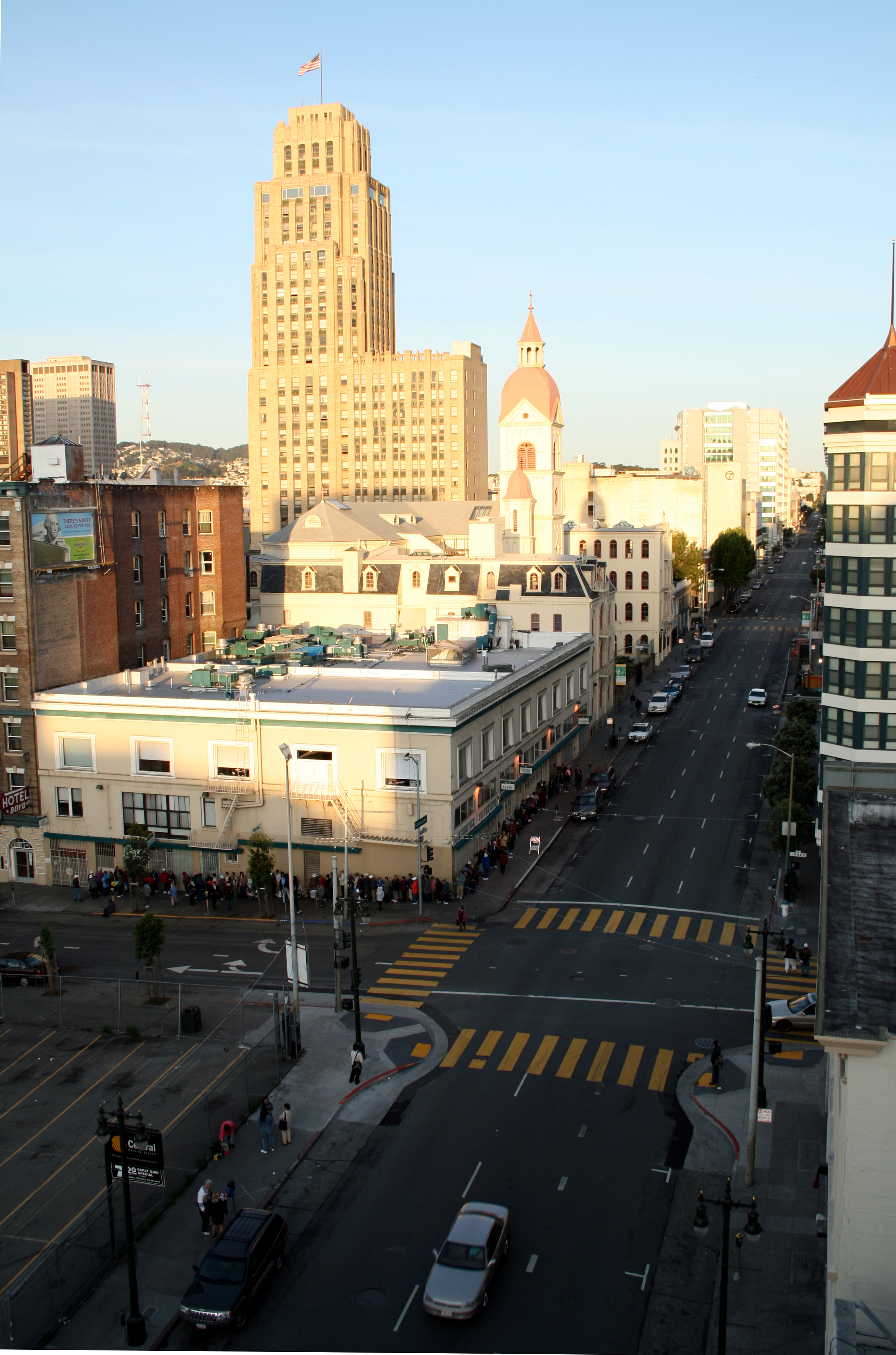 A view of Tenderloin. The source of the image is at